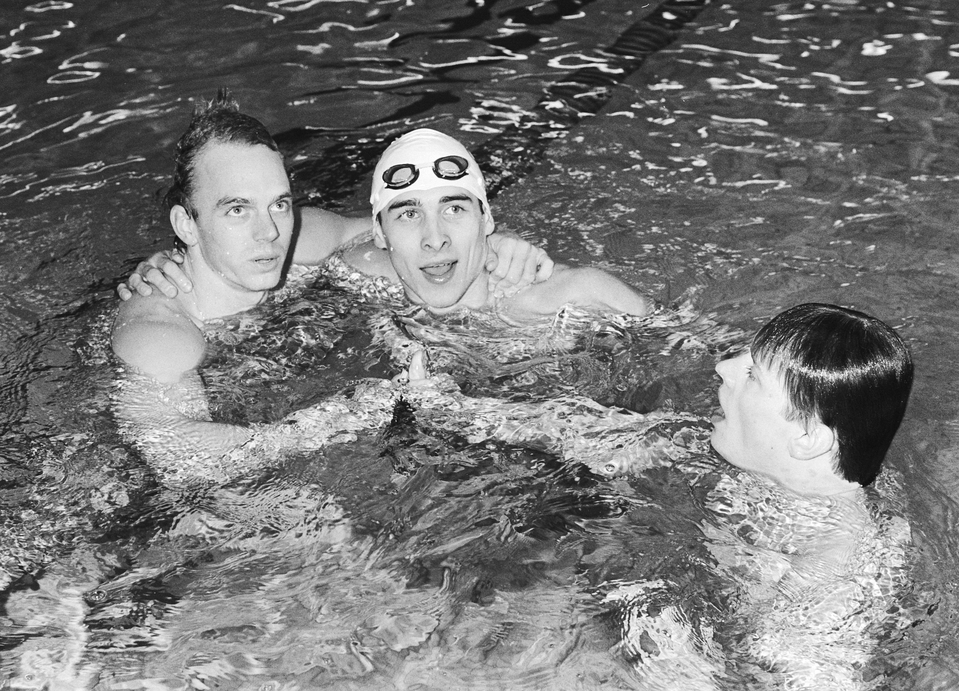 Internationale zwemwedstrijden: Speedo-meet Amersfoort 1983. Rowdy Gaines (l) (VS) wordt gefeliciteerd door Smyryagin (USSR)